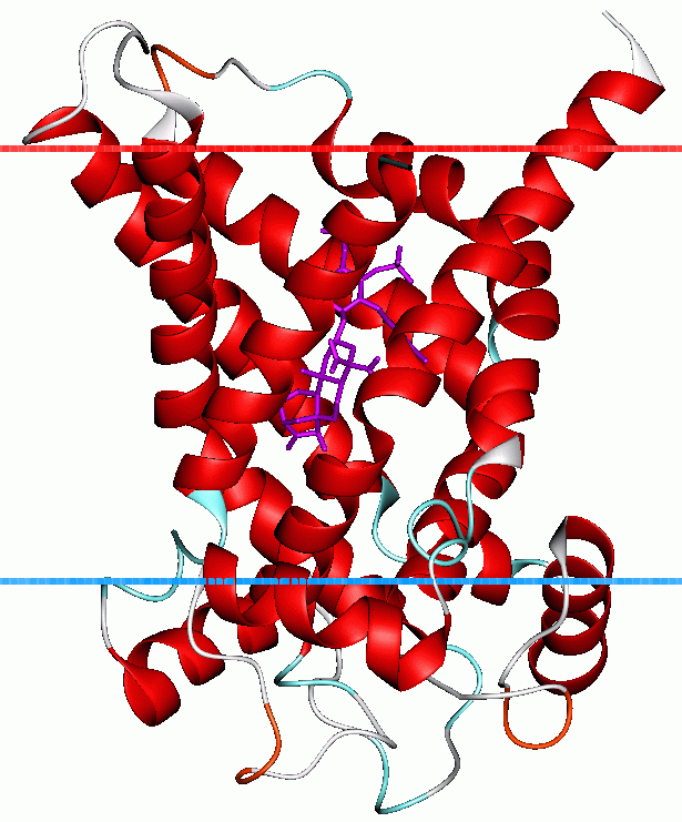 Protein image from OPM database